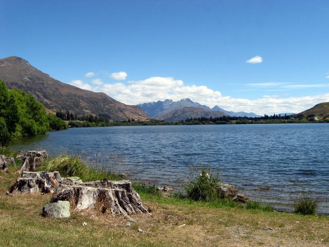 Lake Hayes, New Zealand